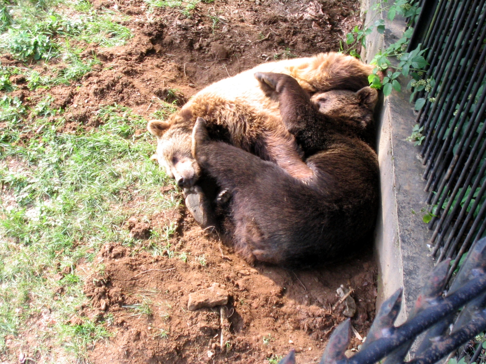 Brown bears in the Bavarian Forest National Park